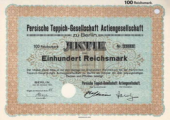 Share of Persische Teppichgesellschaft Aktiengesellschaft (PETAG) Berlin